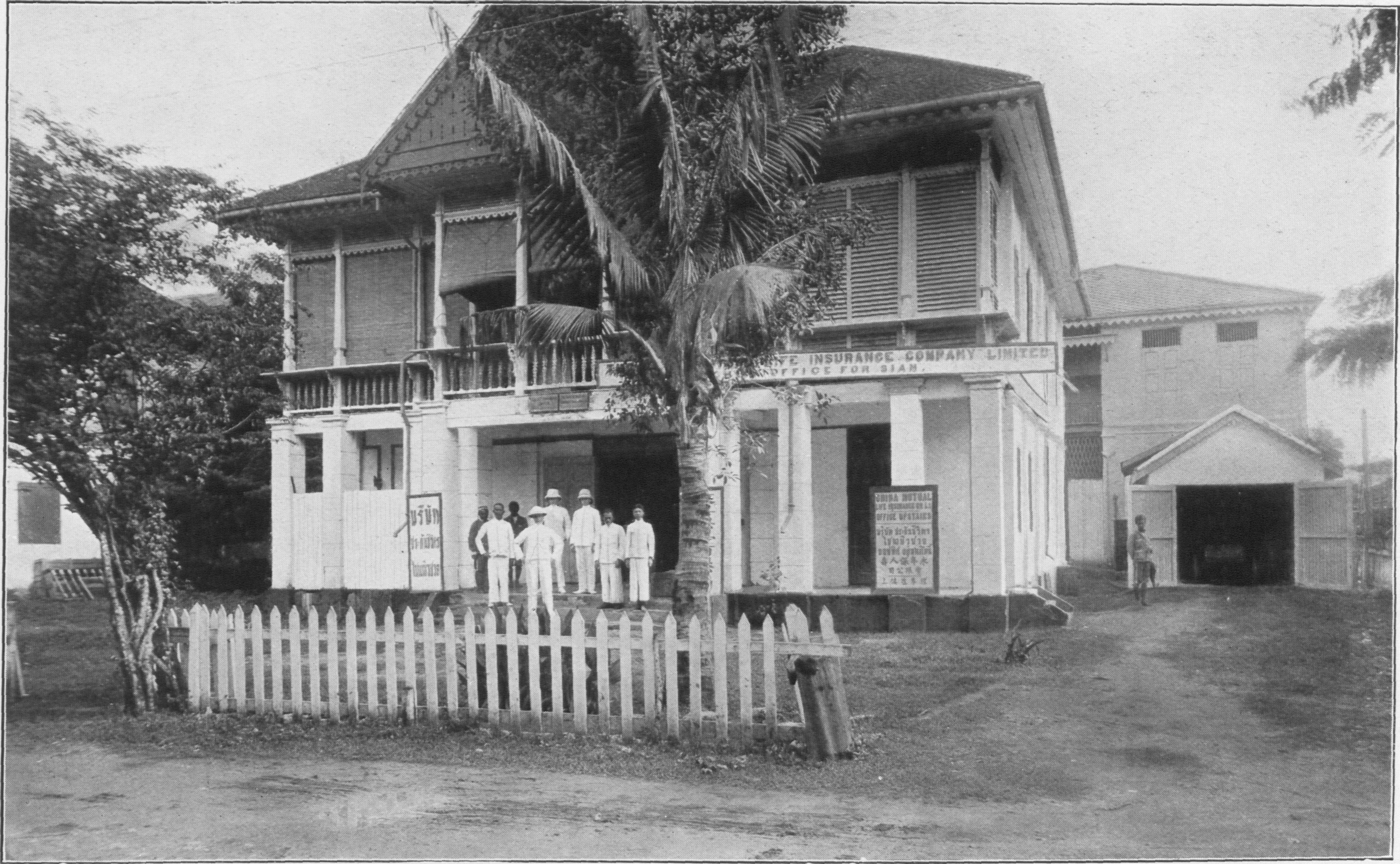 "The offices of Louis T. Leonowens, Ltd." from Twentieth Century Impressions of Siam, p. 267.